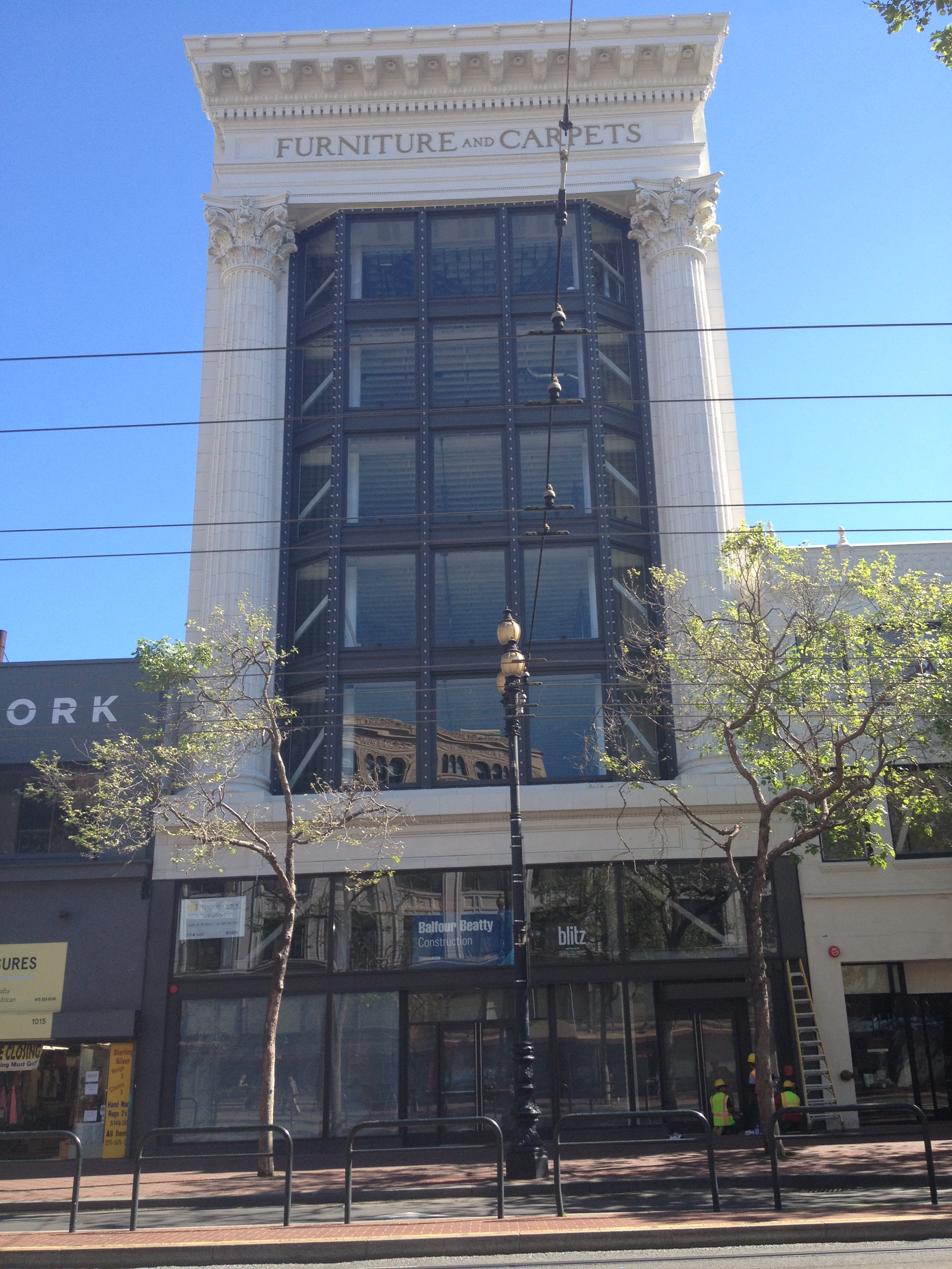 Market and Taylor St. San Francisco, CA